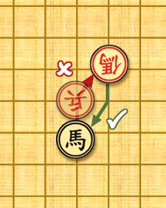 Diagram illustrating movement of the horse piece in the game xiangqi. Green moves are legal. Red moves are illegal because another piece is obstructing the way of the horse piece. Created by Jerry Crimson Mann 06:35, 13 July 2005 (UTC). Based on the original image by User:Lowellian at Image:HorsePieceAgainstHorsePiece.gif.